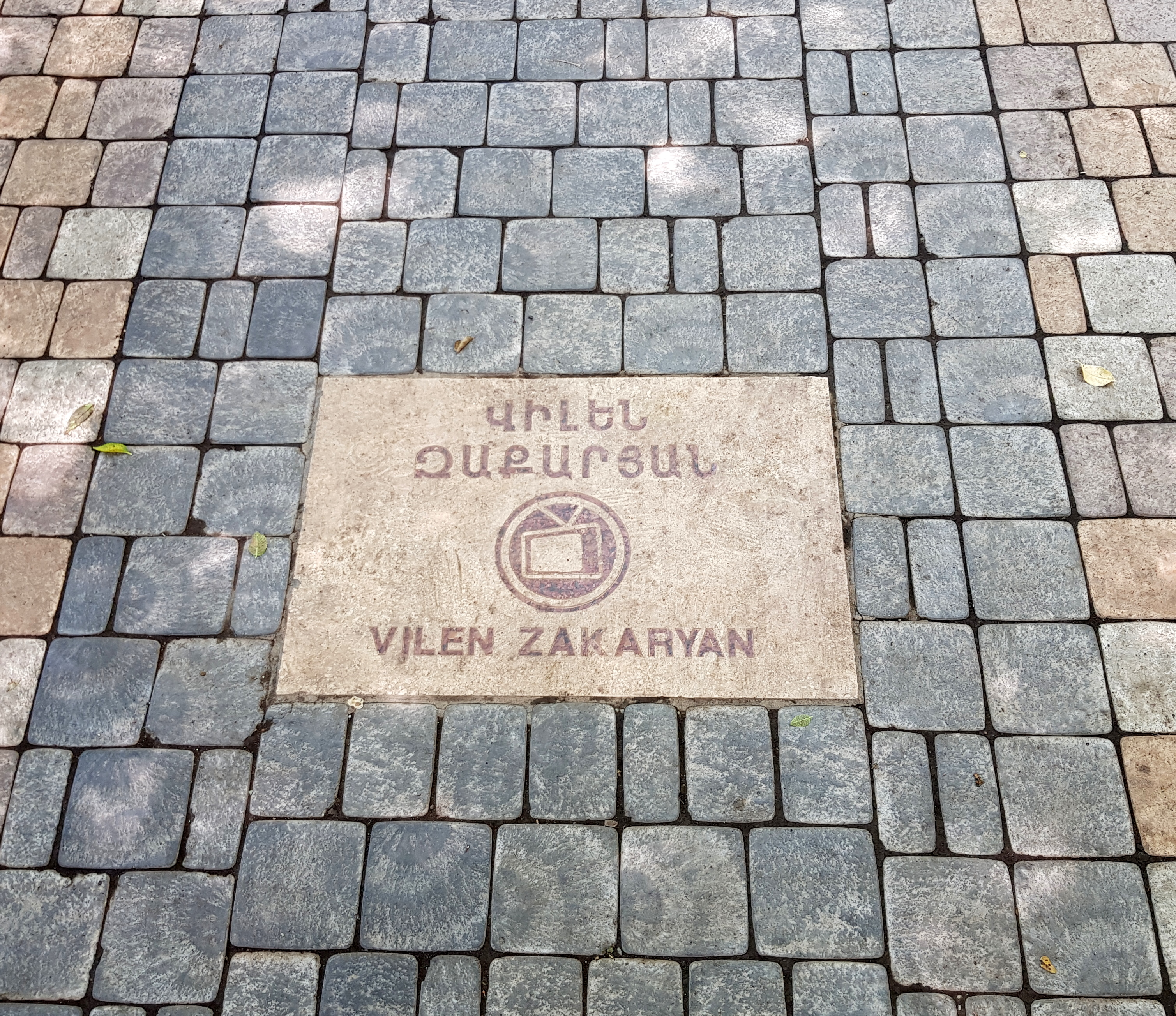 Alley of Devotees, Yerevan